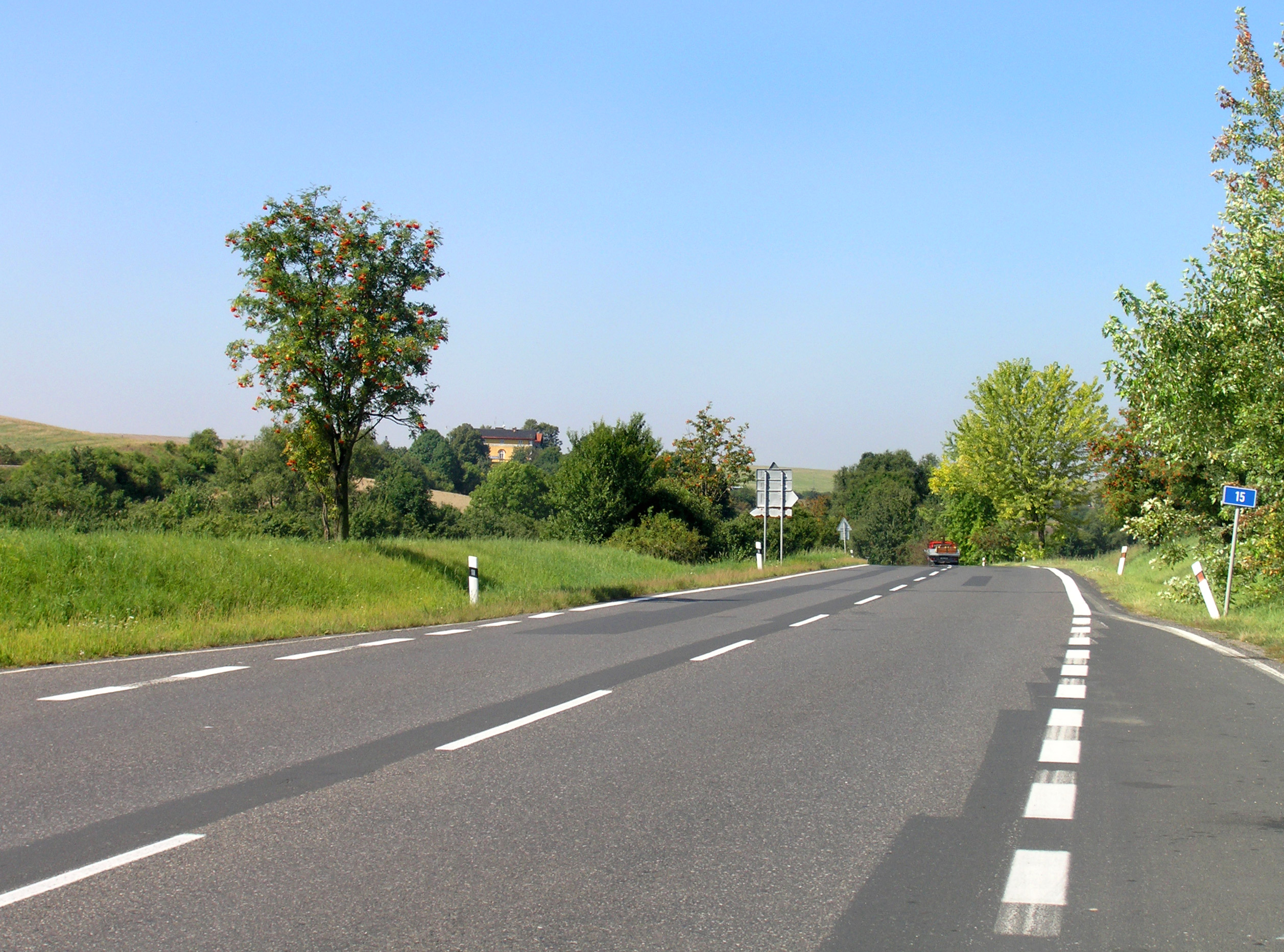 Road I/15 in Býčkovice village, Czech Republic